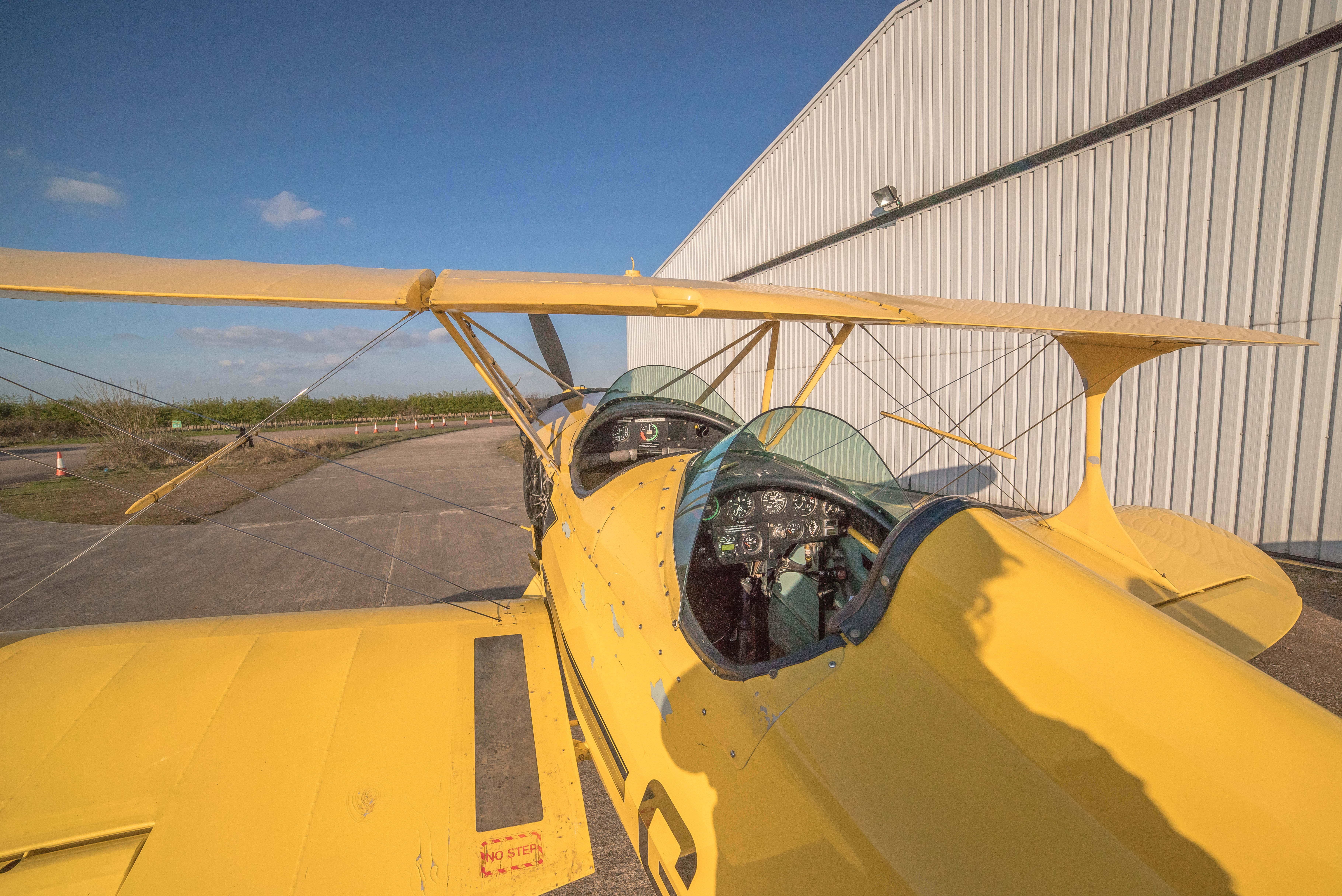 Stolp SA-300 Starduster Too instrument panel